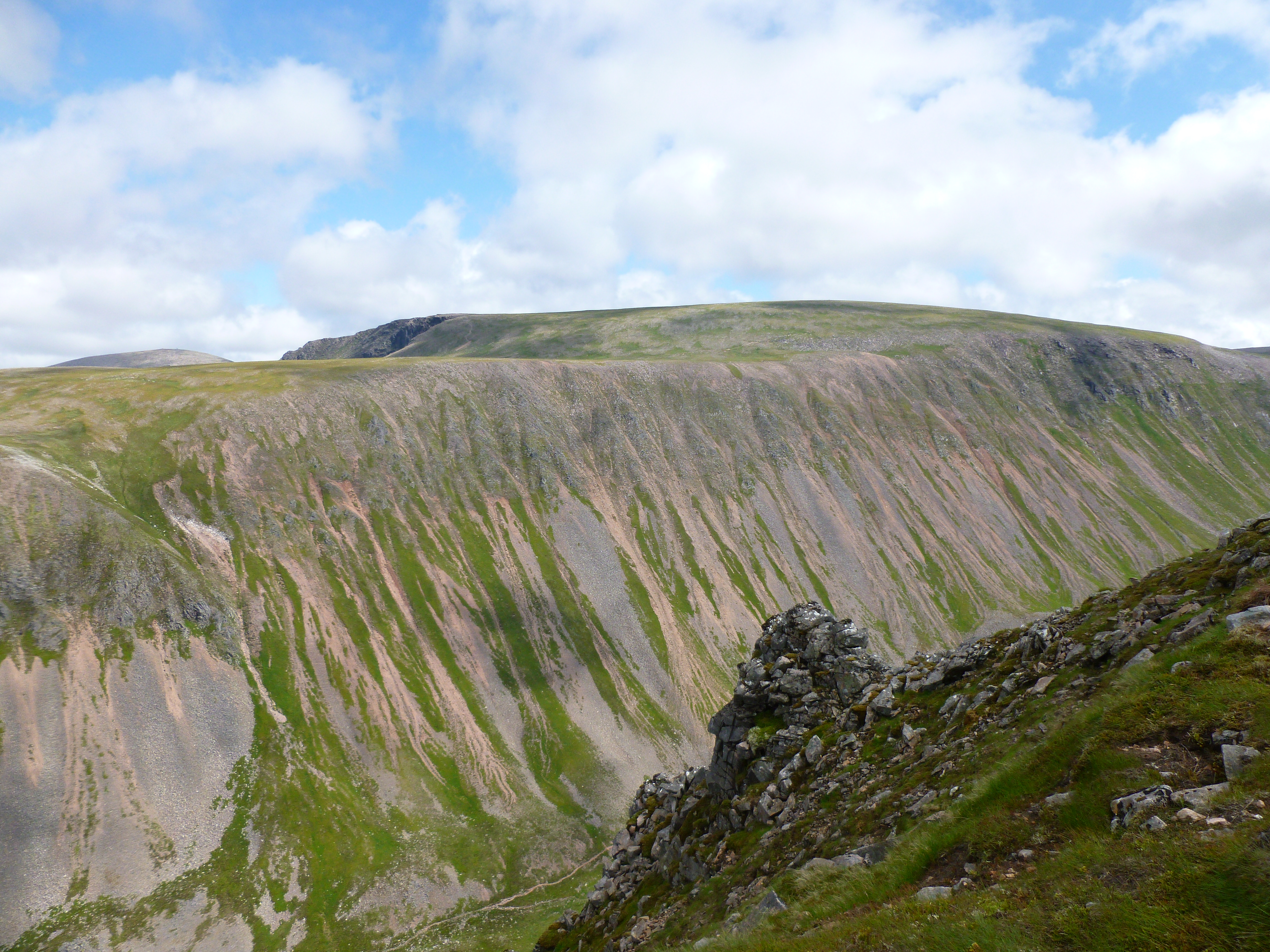 Looking across the Lairig Ghru